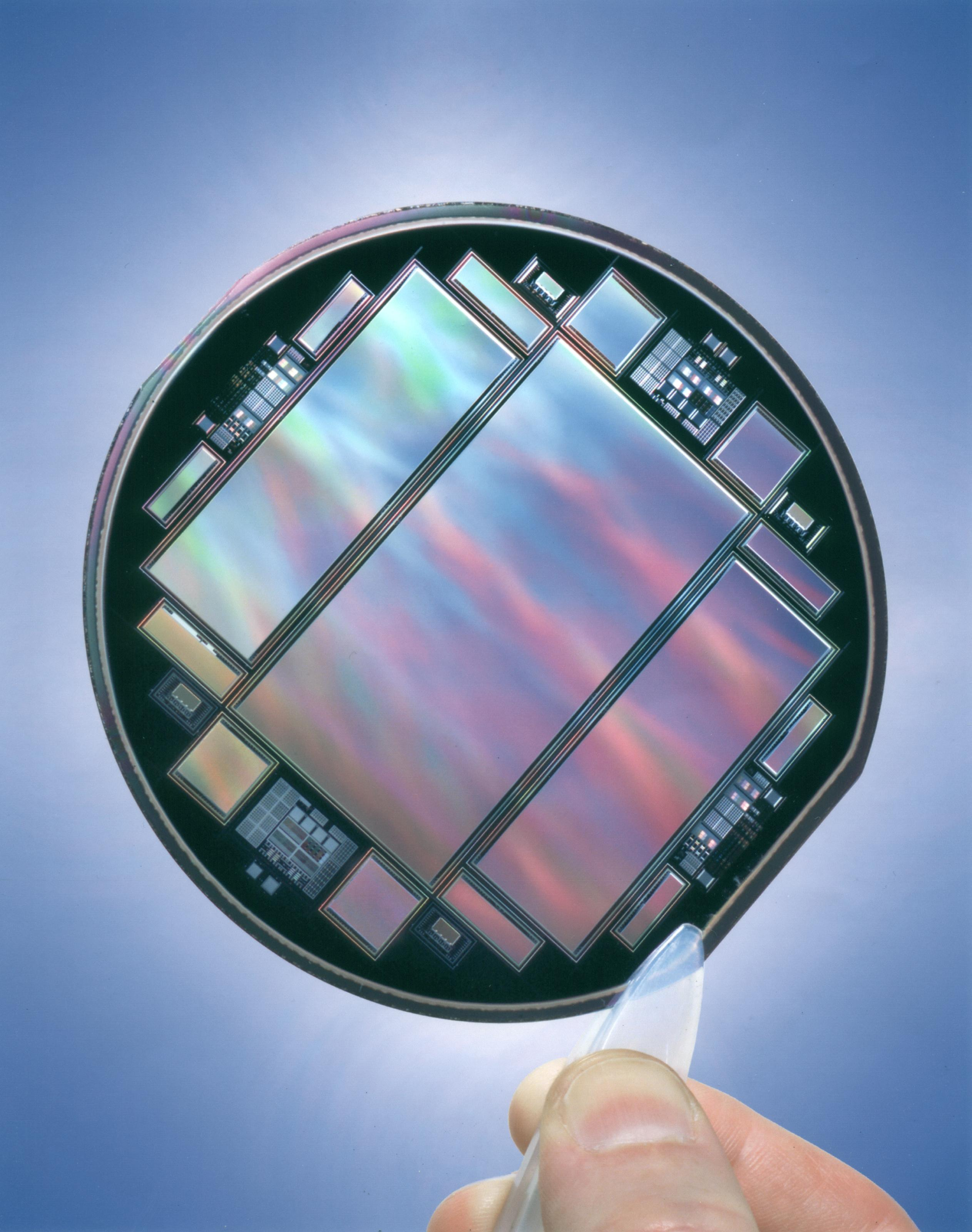 A 300-MICROMETER-THICK CHARGE-COUPLED DEVICE (CCD) WITH MORE THAN 21 MILLION PIXELS. THIS 300-MICROMETER-THICK CCD IS BEING TESTED AT THE UNIVERSITY OF CA'S LICK OBSERVATORY. ASTRONOMICAL CCDS, MOST OF THEM THINNER THAN HUMAN HAIR, HAVE REPLACED PHOTOGRAPHIC PLATES. CCDS HAVE PROVEN TO BE UP TO 100 TIMES AS SENSITIVE AS PHOTO-EMULSIONS AND GIVE TELESCOPES POWER TO REACH DEEP INTO THE UNIVERSE. BERKELEY LAB RESEARCHERS CREATED ASTRONOMIC CCDS THAT ARE BOTH RUGGED AND SENSITIVE TO LIGHT, FROM X-RAYS TO THE NEAR INFRARED, WITH EXTREME EFFICIENCY AND LONG WAVELENGTHS.